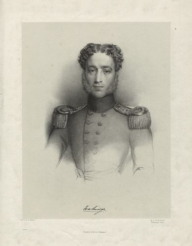 Portrait of Henry Paget, later 2nd Marquess of Anglesey, by Francis William Wilkin, after unknown artist